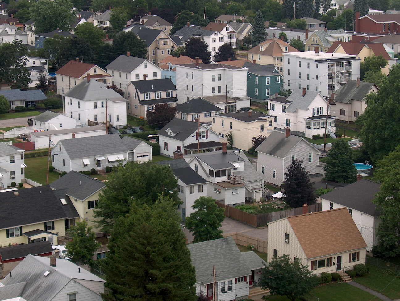 West side neighborhood, Manchester, New Hampshire. Photo taken by Ken Gallager, July 9, 2005.